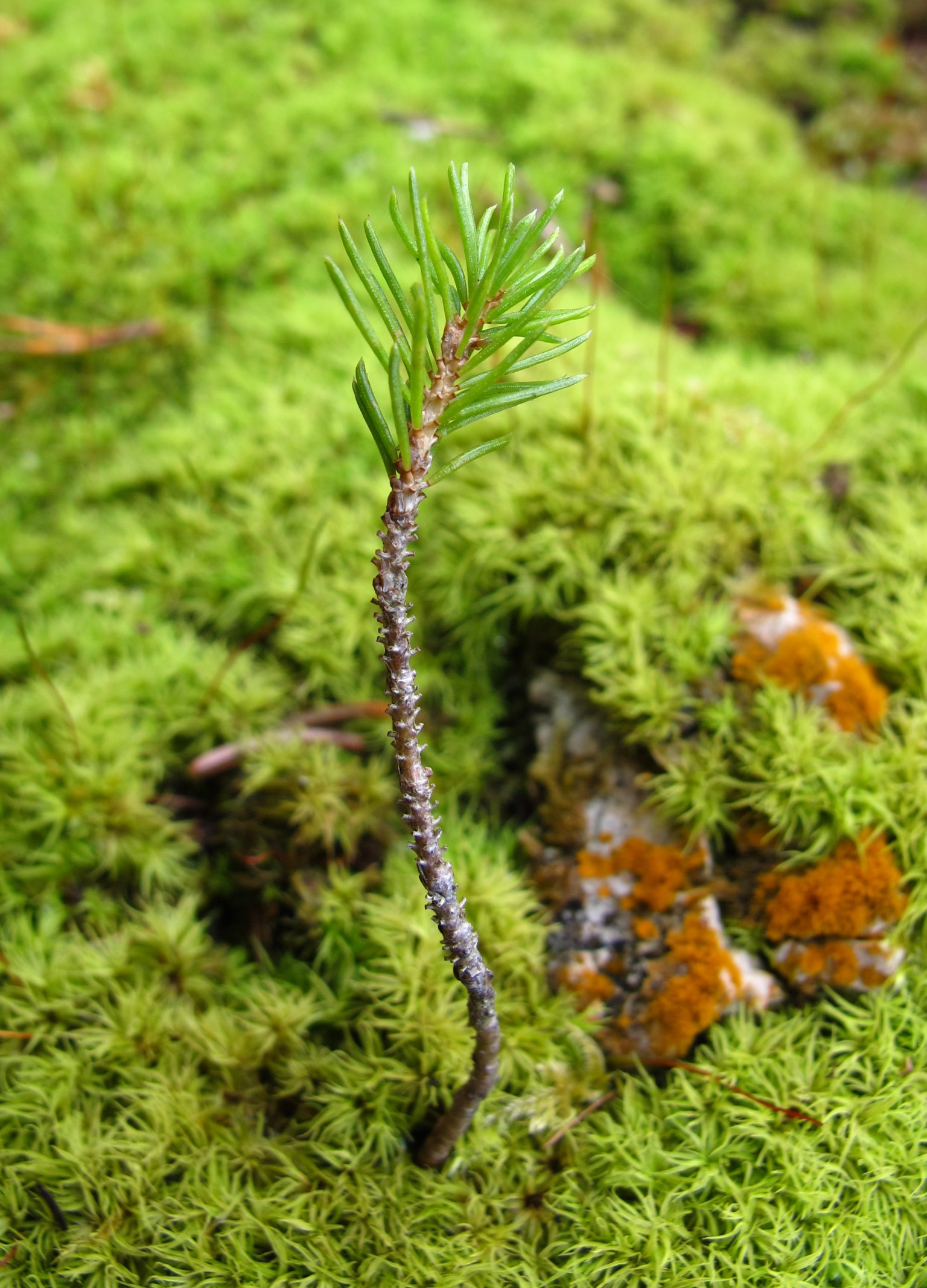 Picea abies near Ferlach / Carinthia / Austria / European Union. About 10 cm in a spruce seedlings in the green moss.